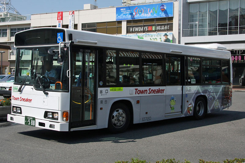 Matsumoto Electric Railway's route bus "Town Sneaker" (Car No.10720 / Hino Rainbow PB-HR7JHAE / J-BUS body) at Matsumoto Station Castle Exit, Matsumoto, Nagano, Japan.